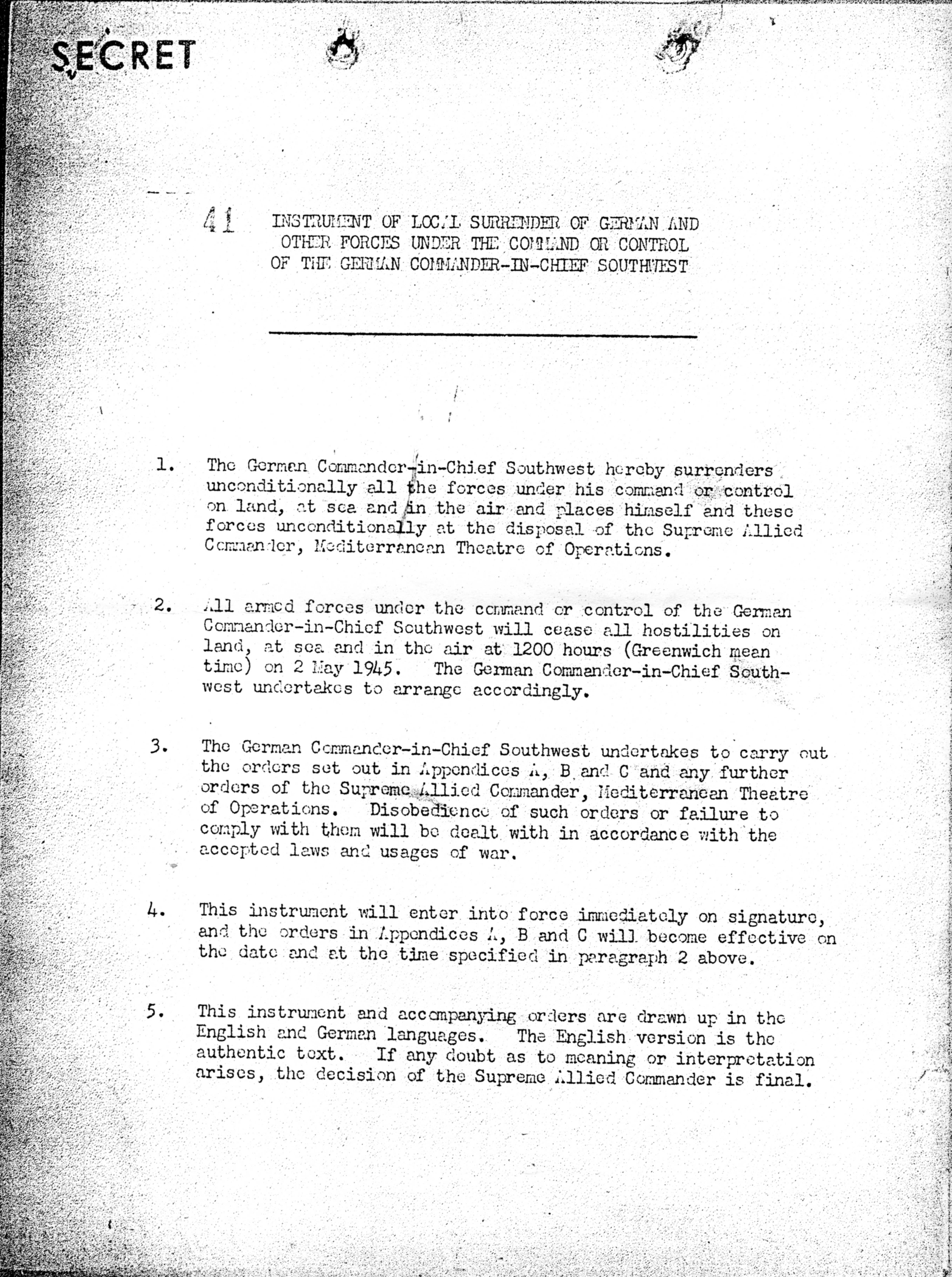 Instrument of Local Surrender of German and other forces under the comand or control of the German Commander-in-Chief Southwest (without signs but simpler in reading, see other versions) (page 1 of 2)